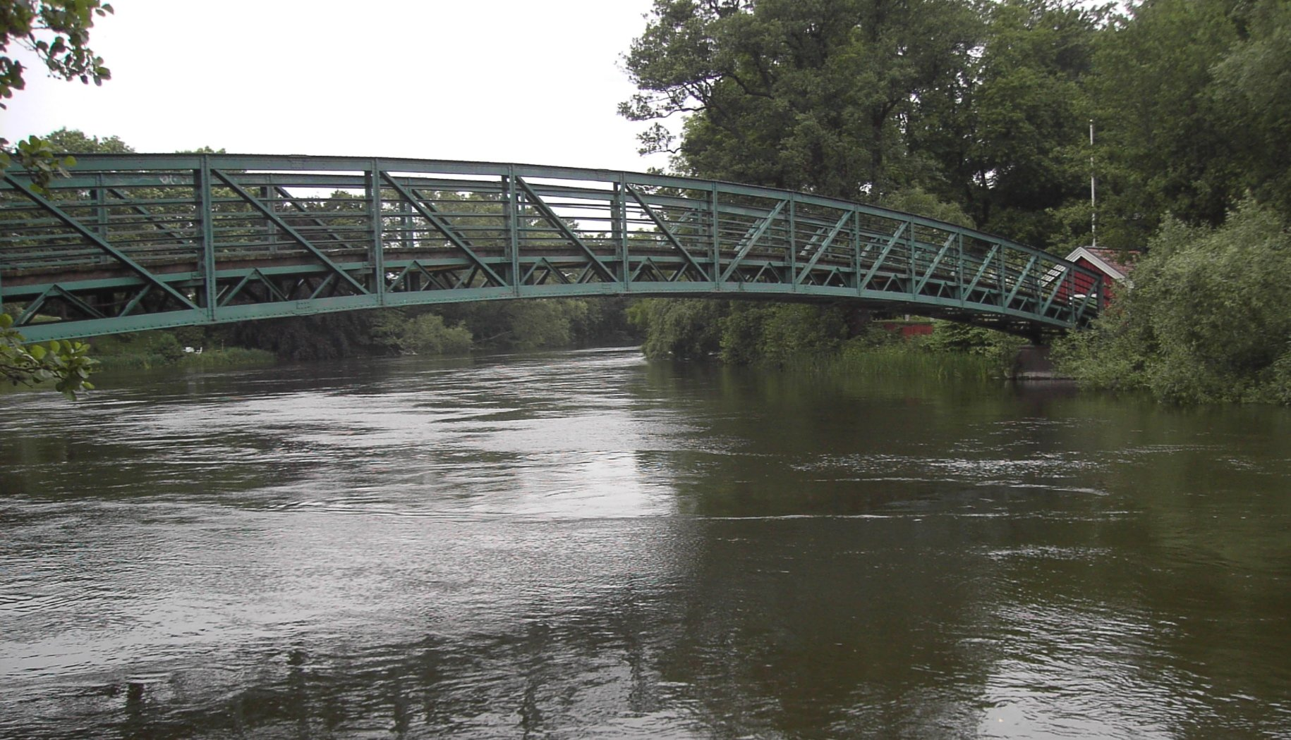 A bridge for pedestrians across Motala river in Norrköping, Sweden